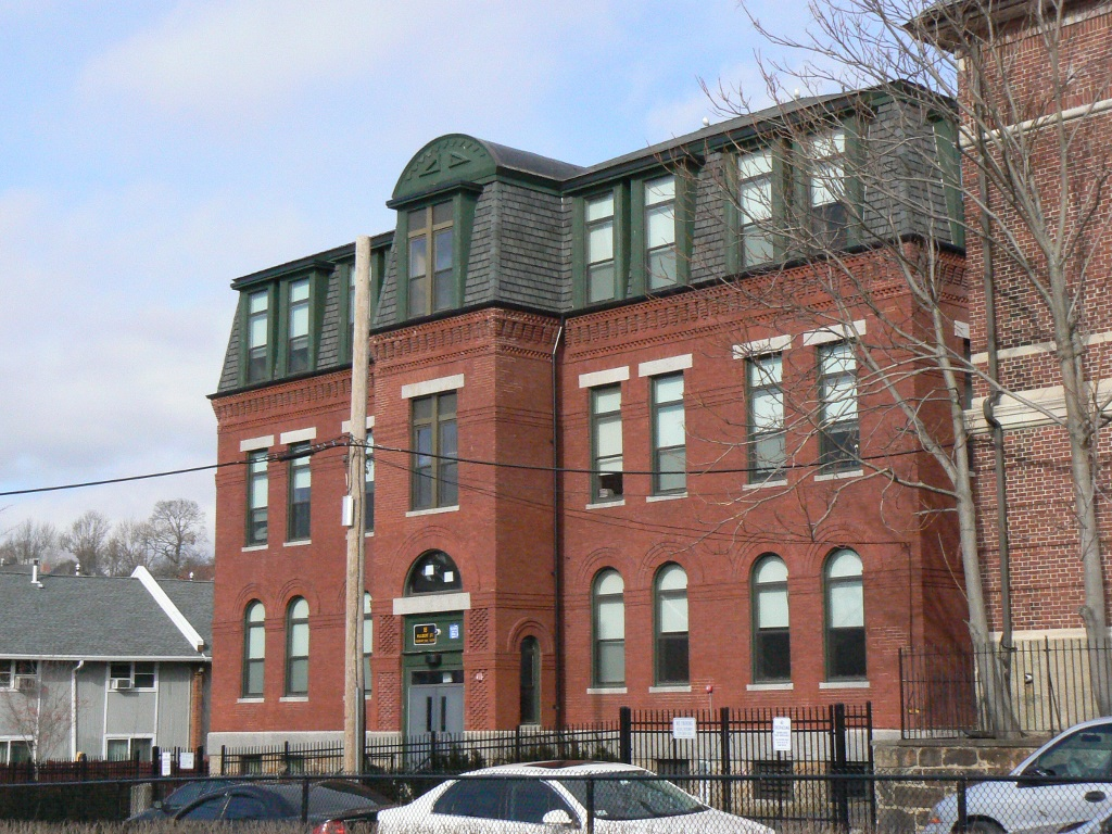 One of the buildings formerly belonging to the now-closed St. Joseph Catholic Church in the Roxbury neighborhood of Boston, Massachusetts. The building now houses a charter school.